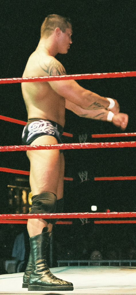 Randy Orton redies himself for Kane.